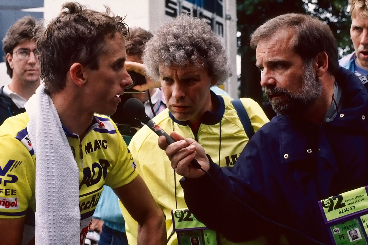 Greg faces the instant interviews at the finish of the 1989 Tour de France stage in Luxembourg. Greg memorably took victory on the final stage time trial in Paris by a winning margin of 8 seconds from Laurent Fignon.